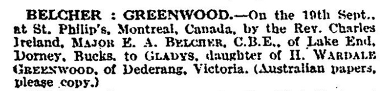 Marriage notice of Gladys Greenwood and Major Ernest Albert Belcher, 1926